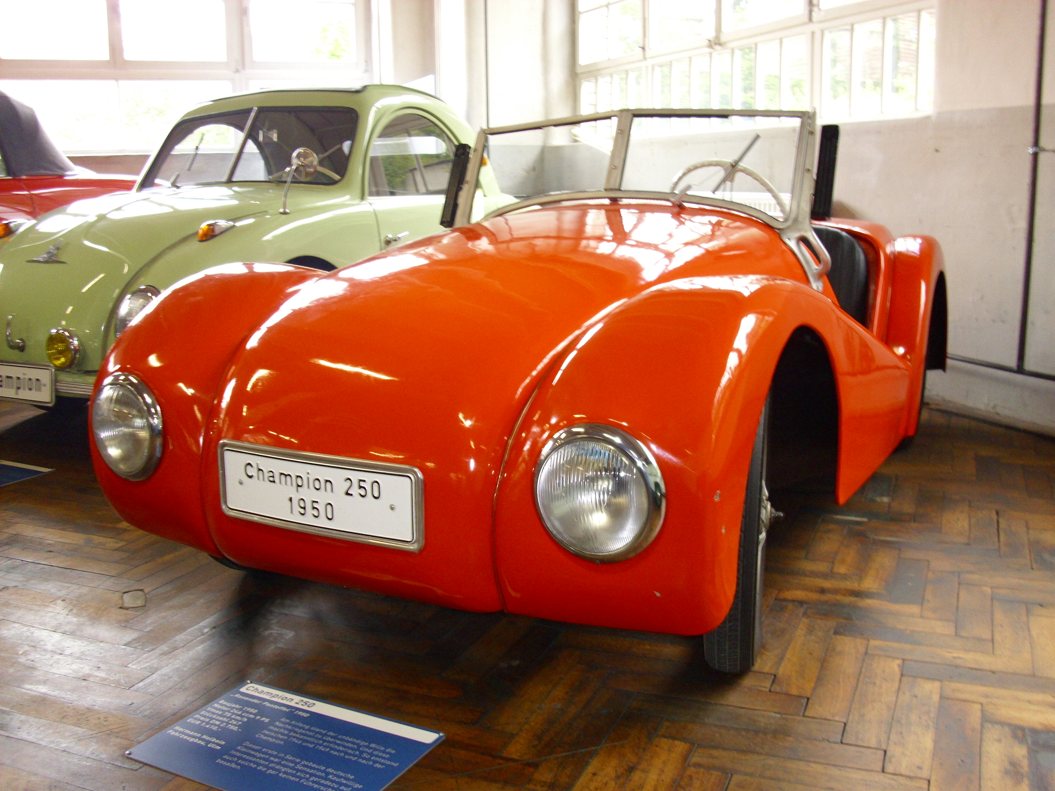 Champion 250 1950